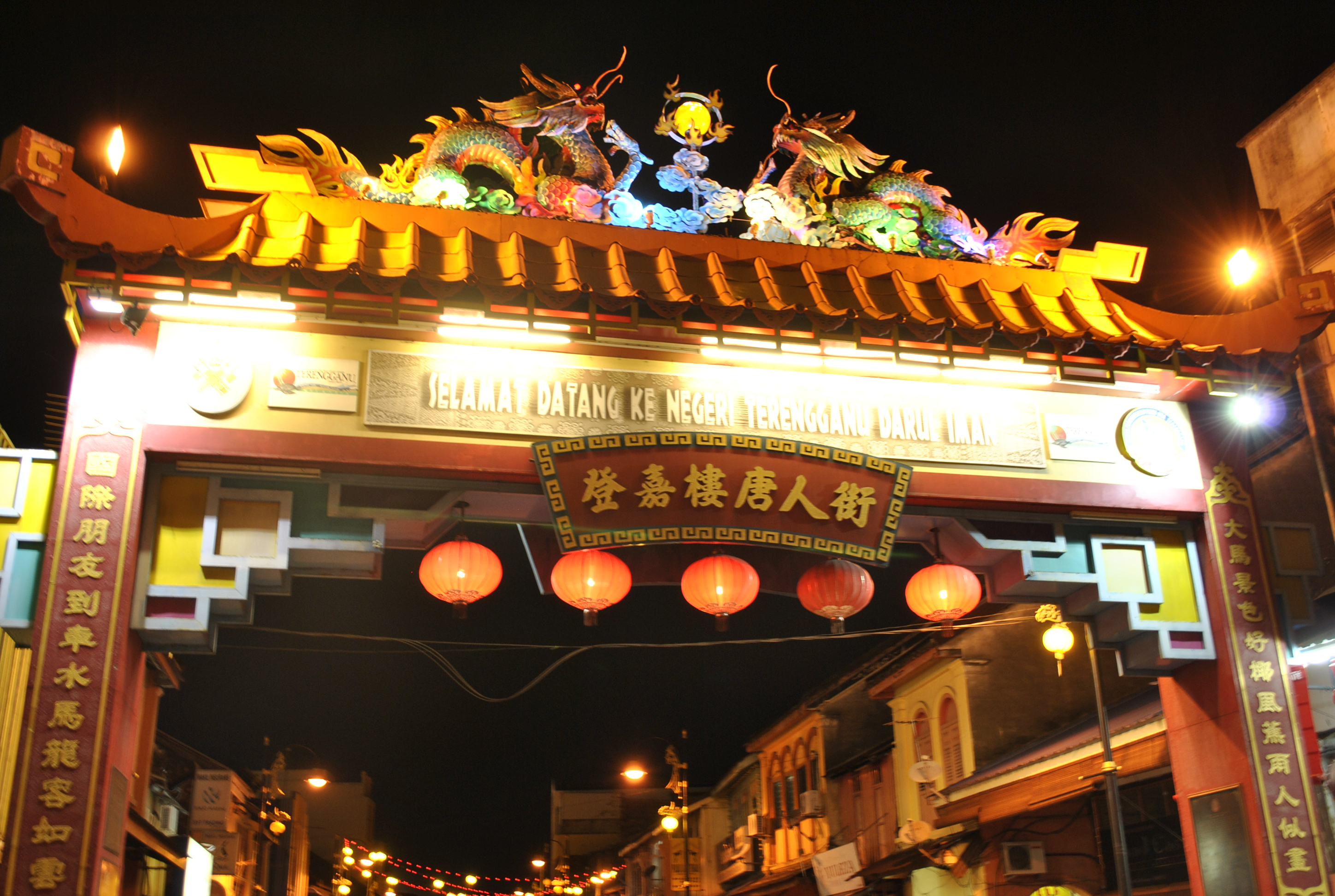 Colourful gate at Chinatown, Kuala Terengganu